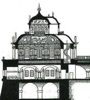 Erstes Belvedere